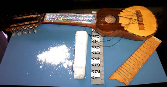 Cocaine smuggled in a charango, seized by Immigration and Customs Enforcement personnel at the Orlando, Florida airport, from a passenger arriving from Panama City, Panama.